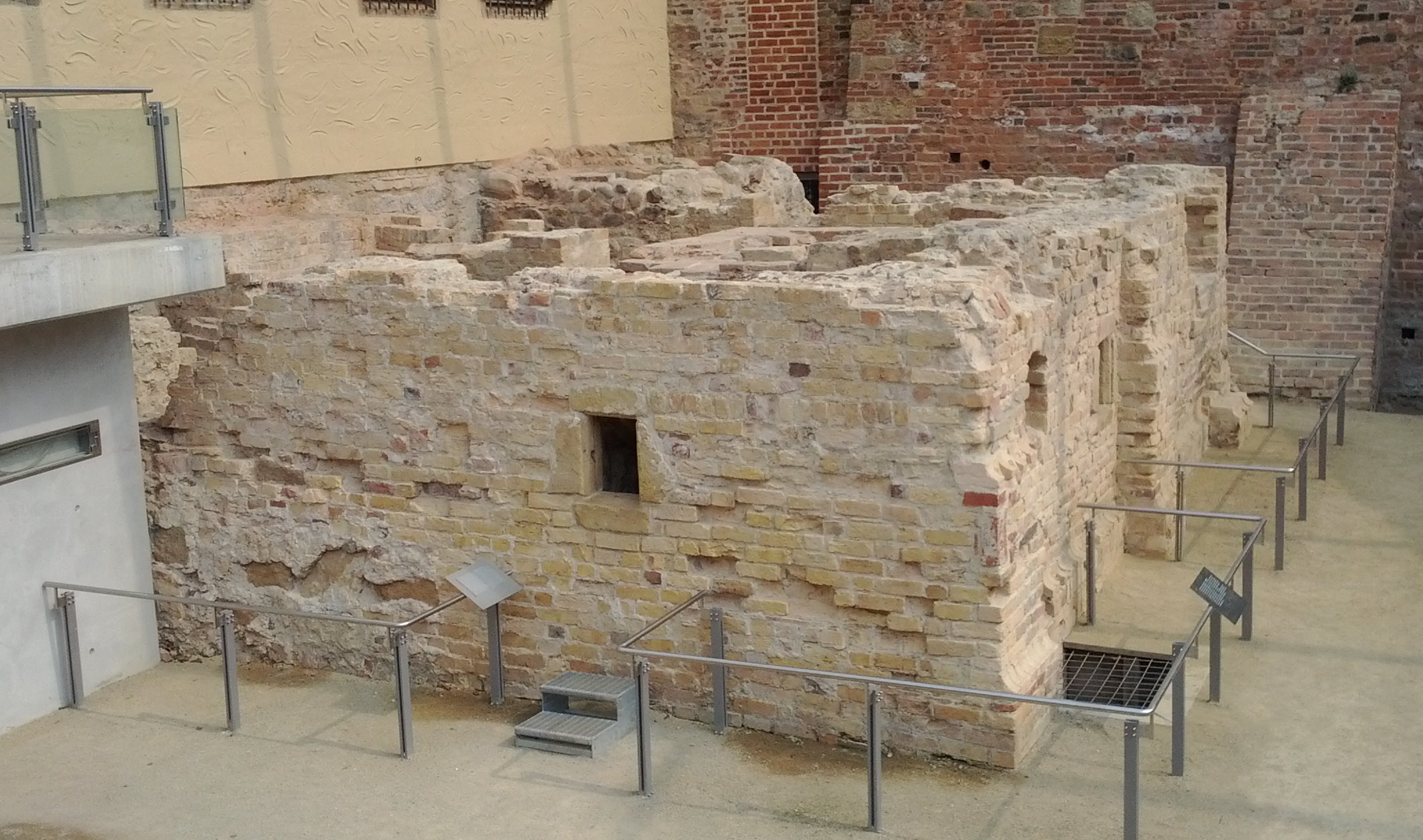 ruins at Luther home in Wittenberg